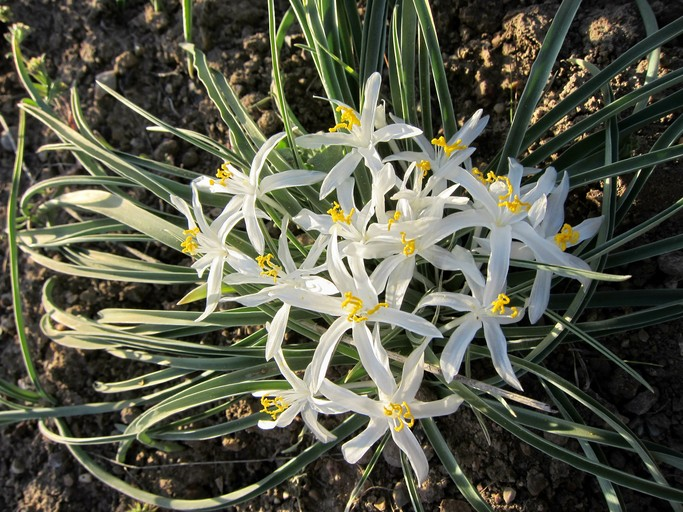 Leucocrinum montanum, Elko County, Nevada, USA. This photo is in the public domain and may be freely used for any purpose.